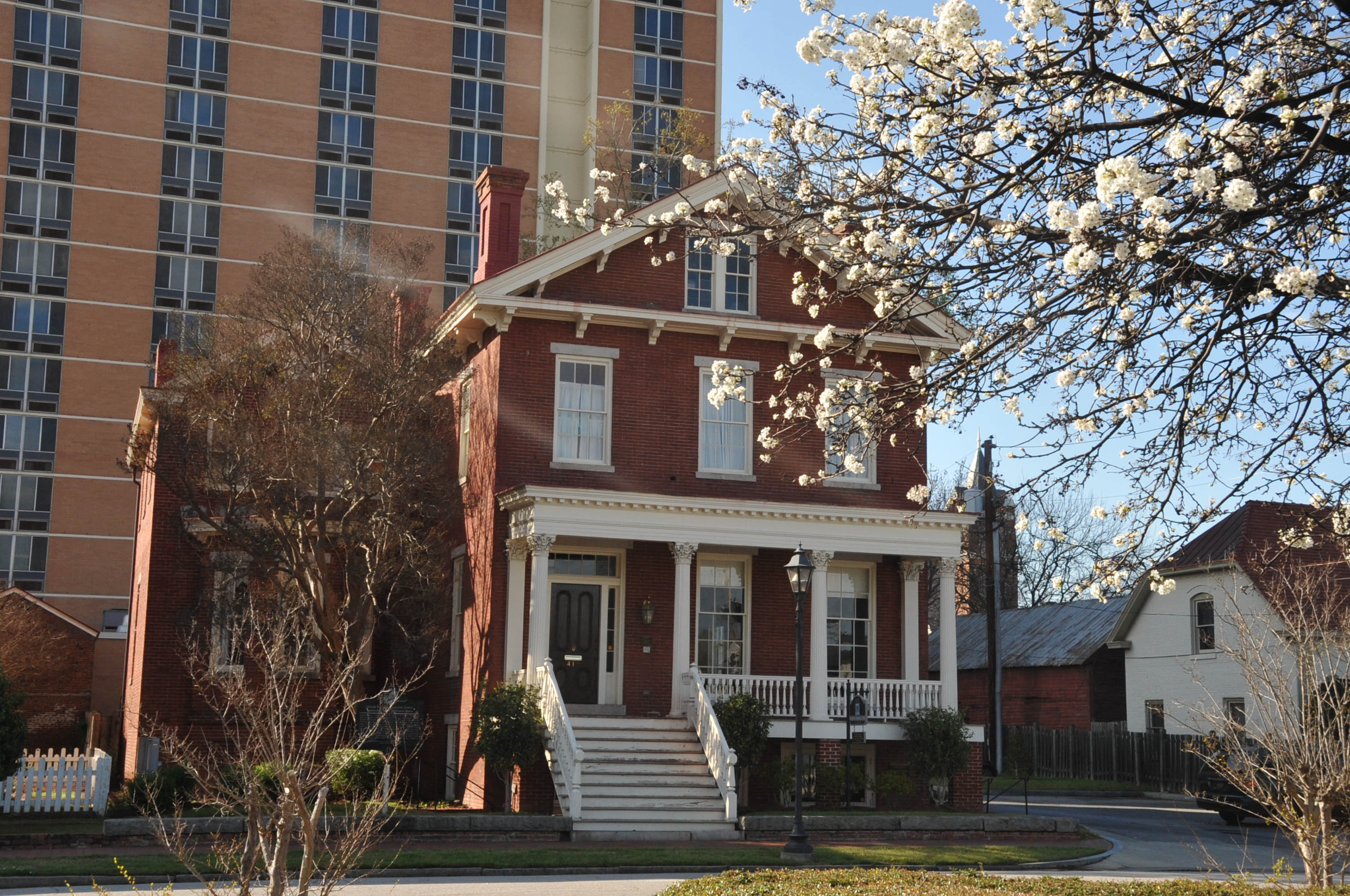 LAMAR WAS A DEMOCRAT APPOINTED TO THE U.S. SUPREME COURT BY TAFT. ONLY 1 OF 3 JUSTICES APPOINTED BY A PRESIDENT OF THE OPPOSITE PARTY